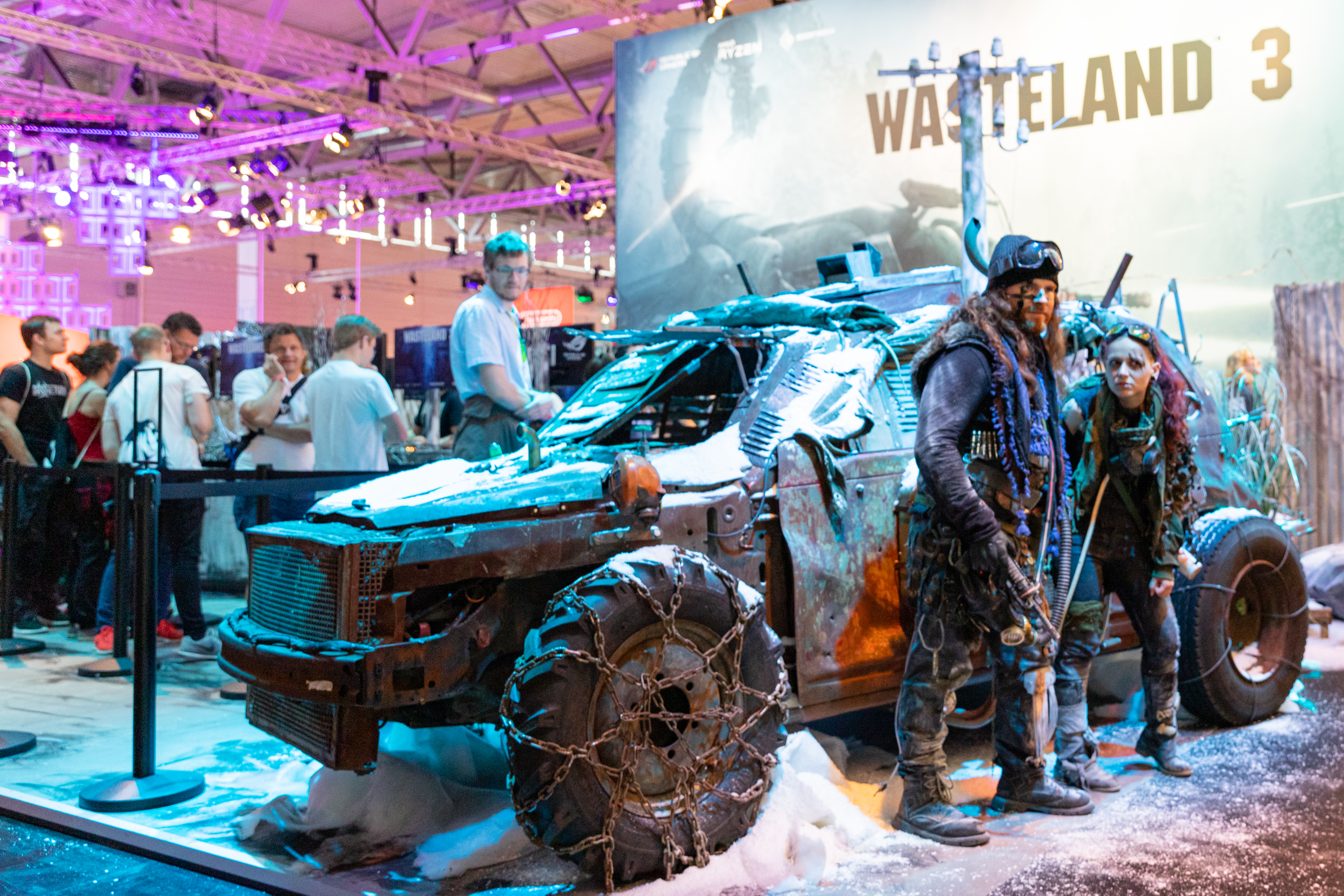 Wasteland 3 Gamescom 2019